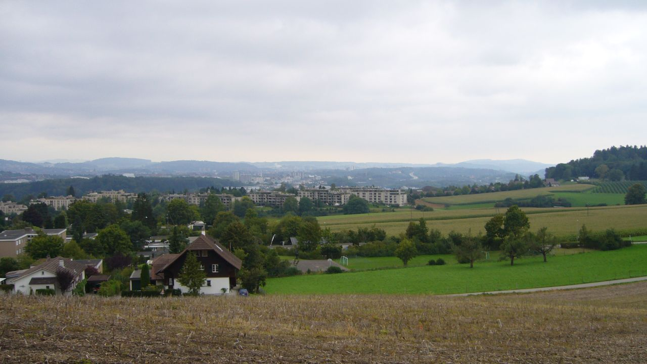 Habstetten, Bern, Switzerland.